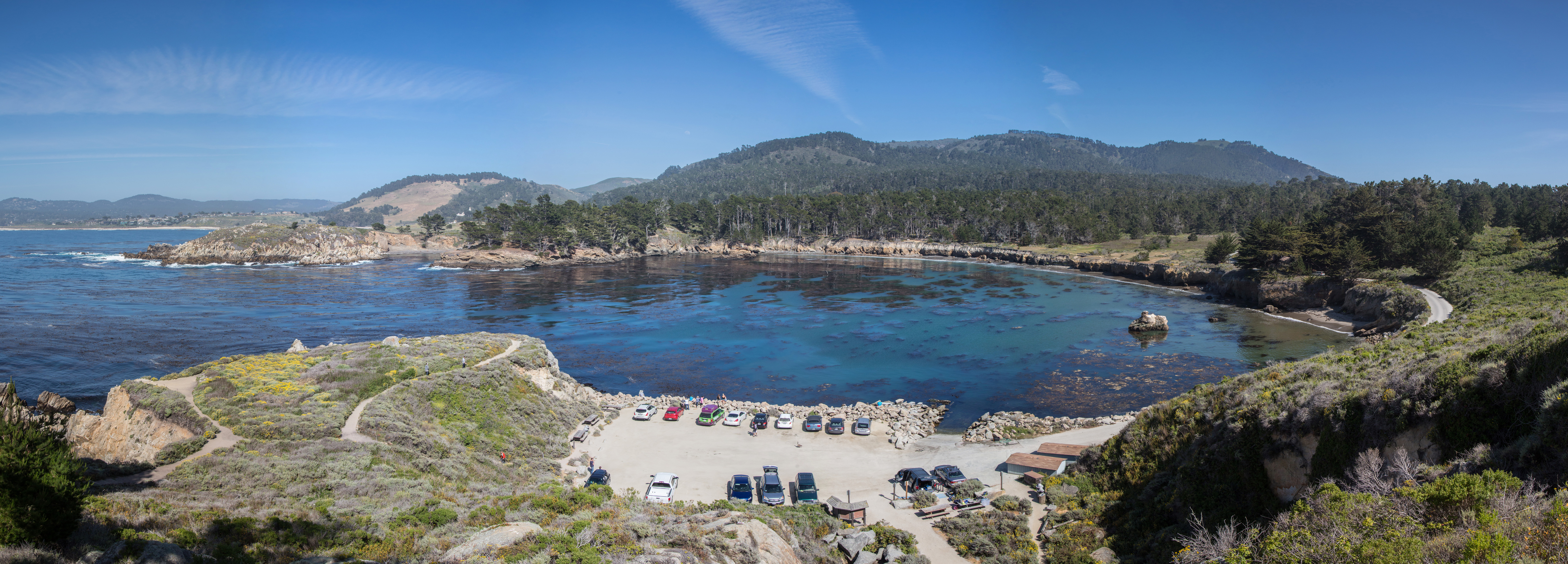 A panoramic view of Whaler's Cove on Point Lobos State Reserve, near Monterrey, California, United States.